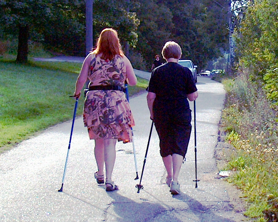 Nordic walking in Helsinki, Finland